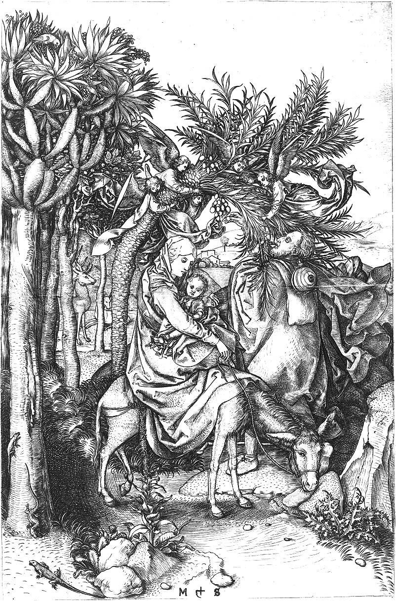 The Flight into Egypt. Engraving. 255 × 169 mm. Amsterdam, Rijksmuseum Amsterdam (inv.no. RP-P-OB-998).